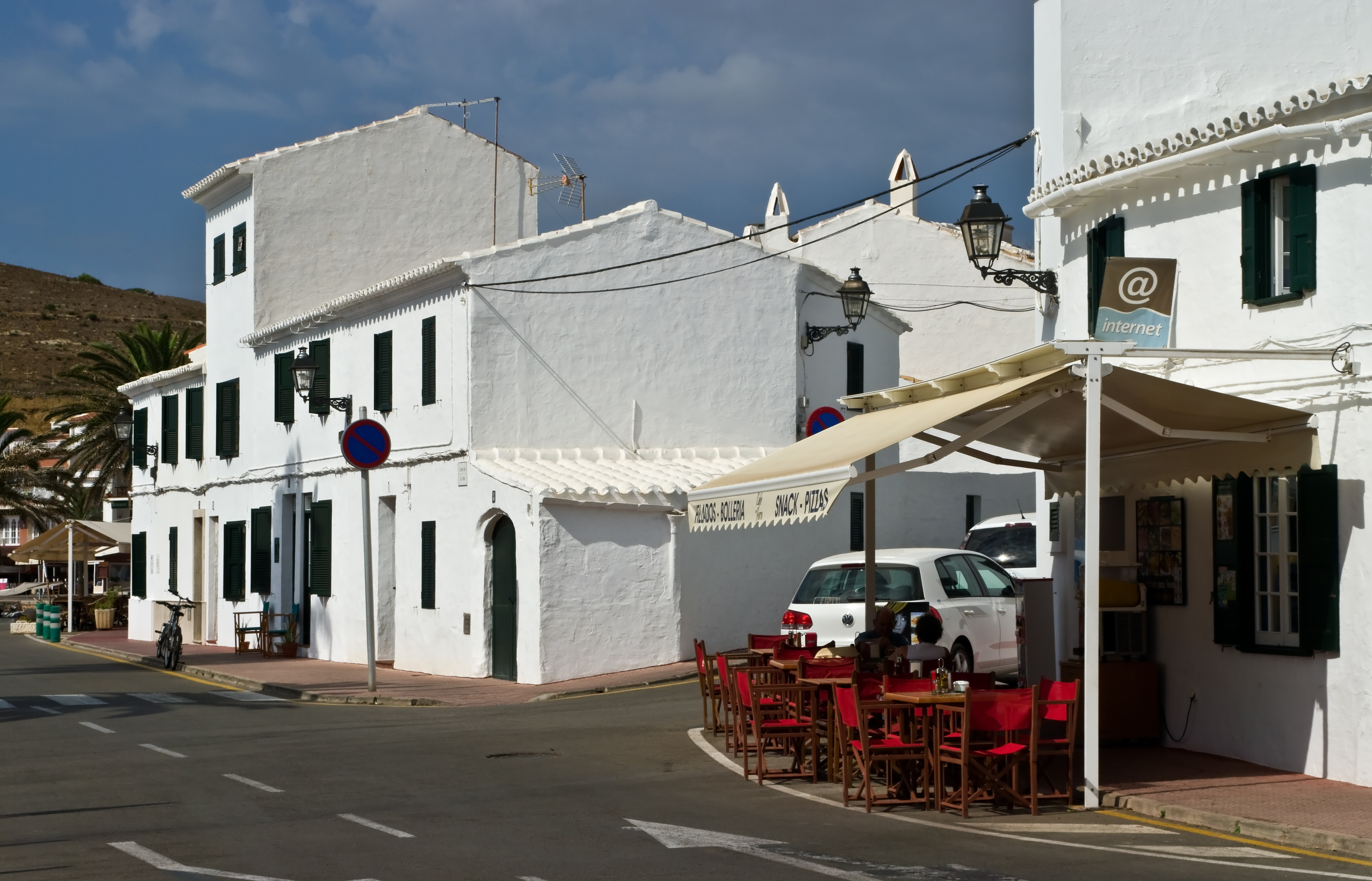 Street in Fornells, Minorca, Spain.